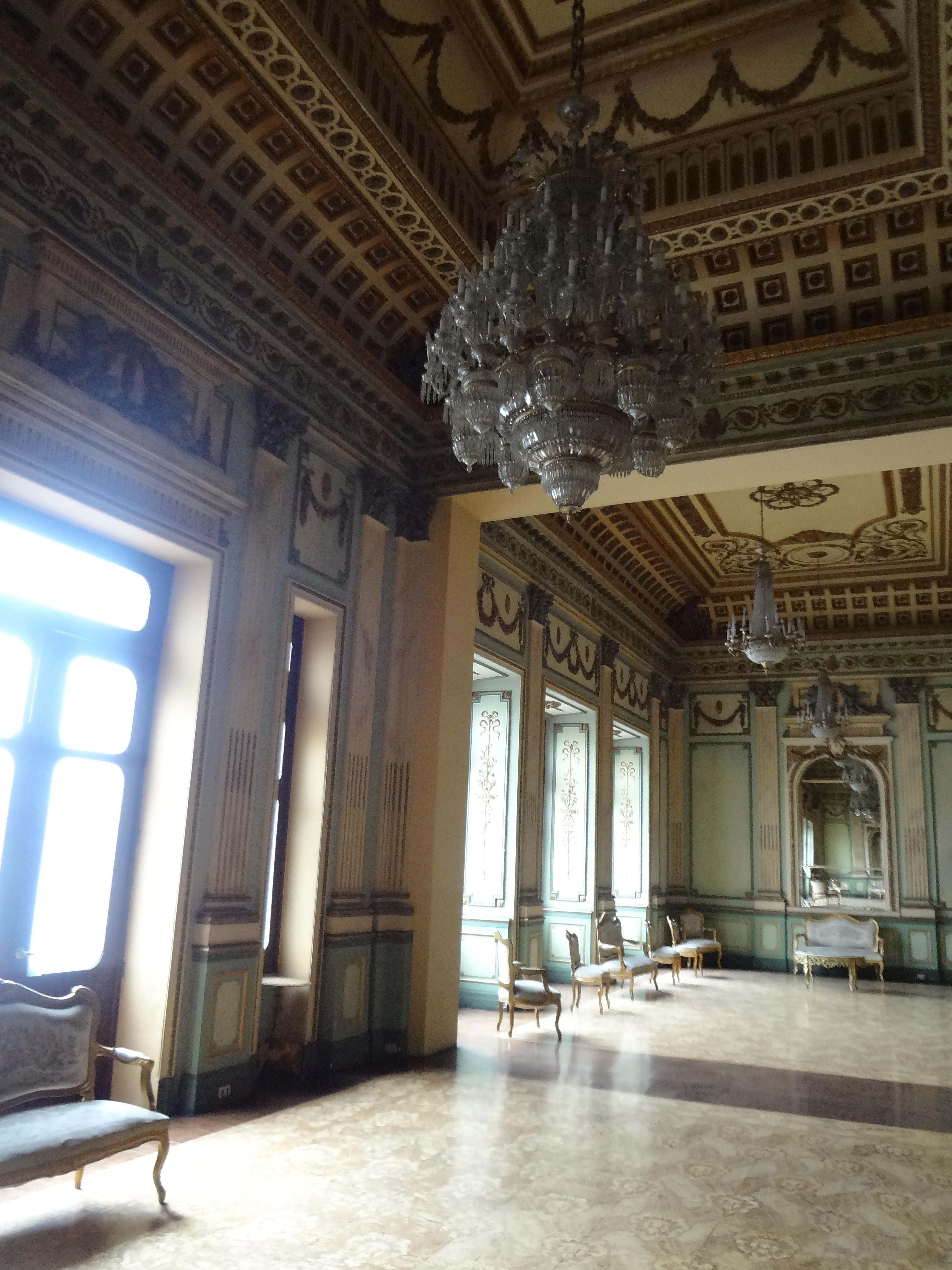 Palacio del Antiguo Círculo Militar (interior) Photography by David Adam Kess